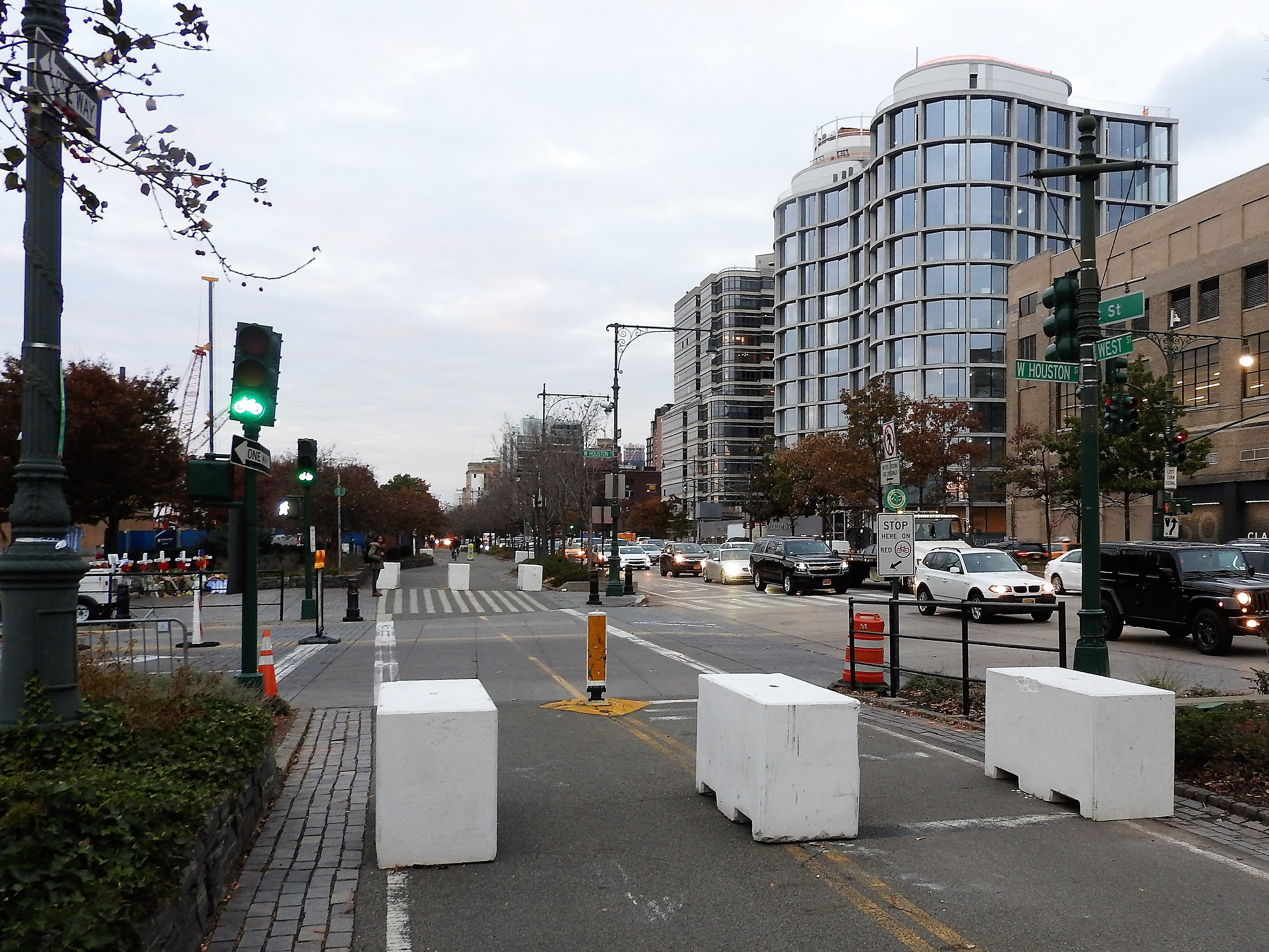 Looking north at boxy bollards on a cloudy late afternoon.